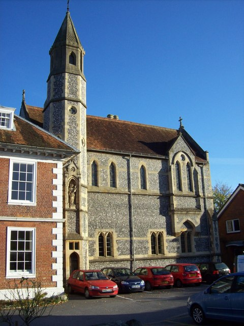 Salisbury - Sarum College Sarum College is an ecumenical education centre based in Salisbury’s Cathedral Close.